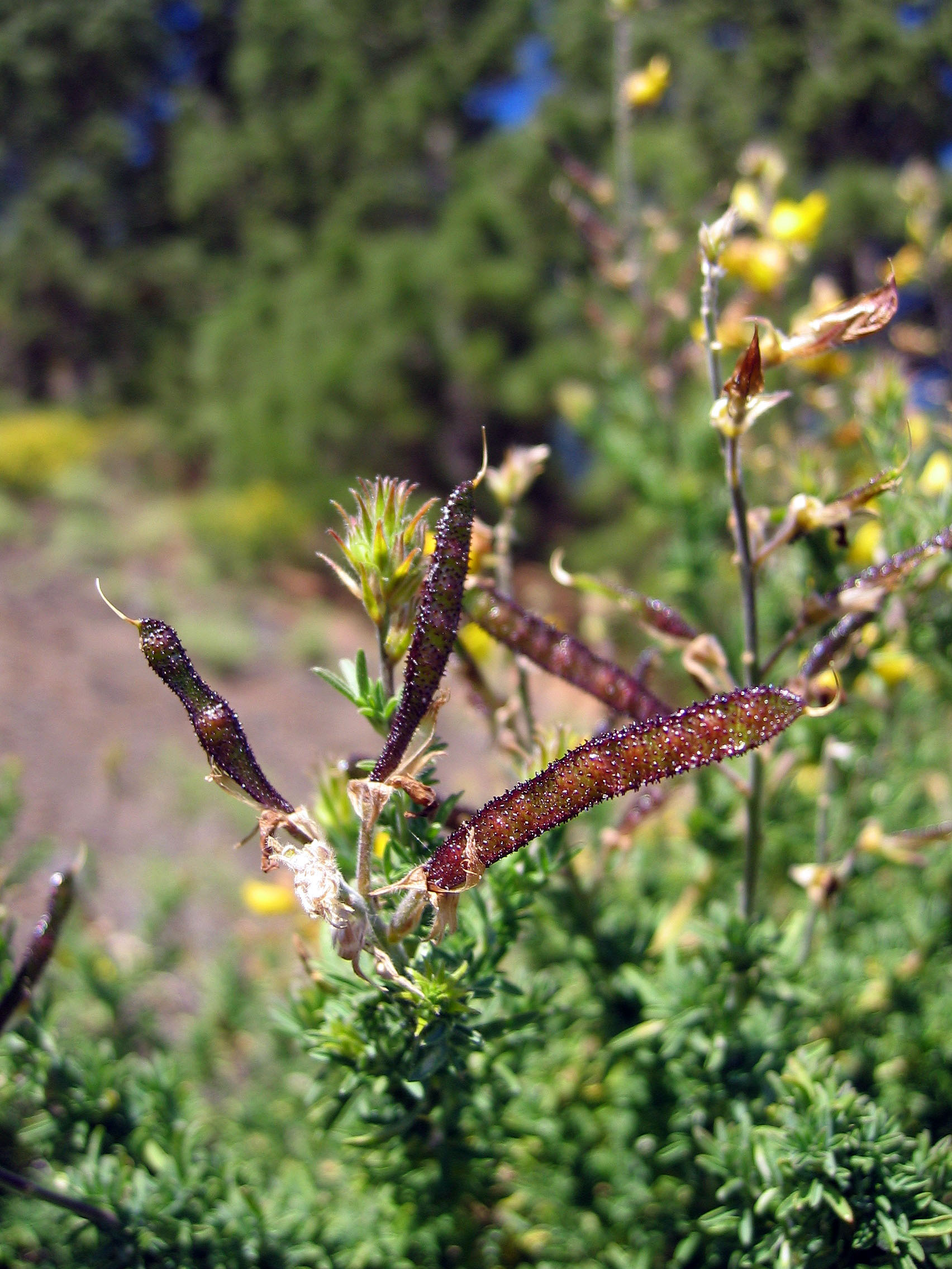 Fruits of Adenocarpus viscosus, Near Pico Birigoyo, La Palma, Spain